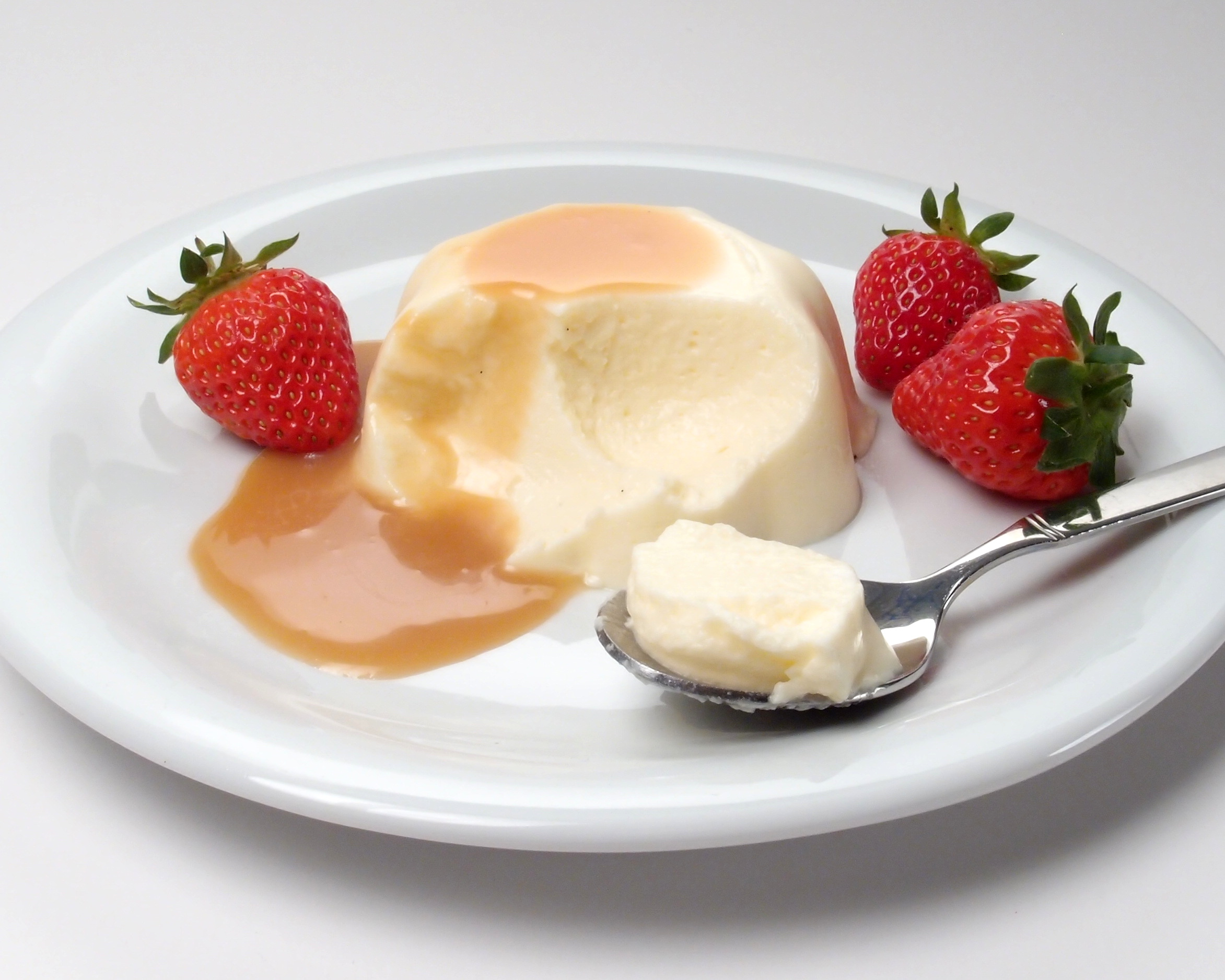 A serving of Bavarian cream with strawberries and caramel sauce. Bavarian cream is a milk-based, gelatin-set vanilla dessert with whipped cream. Despite its name, it is believed to have originated in France.